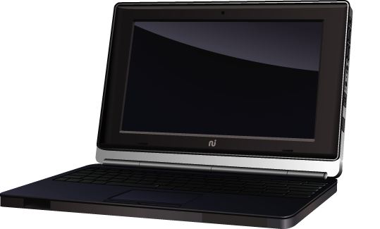 Full Touch Book